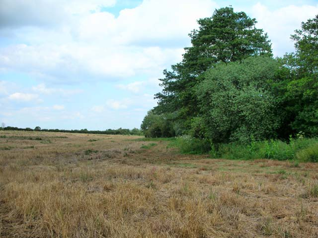 Set-Aside Farmland. The field has been left fallow under Common Agricultural Policy rules. The vegetation has been weedkillered, except for the trees and upgrowth along the brook. The footpath from Pytchley to Burton Latimer runs parallel to the brook.